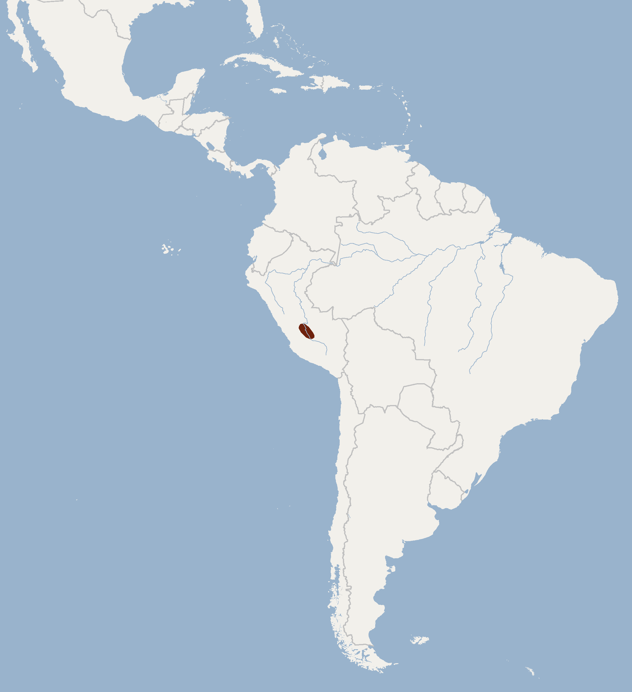 According to Gardner, 2008